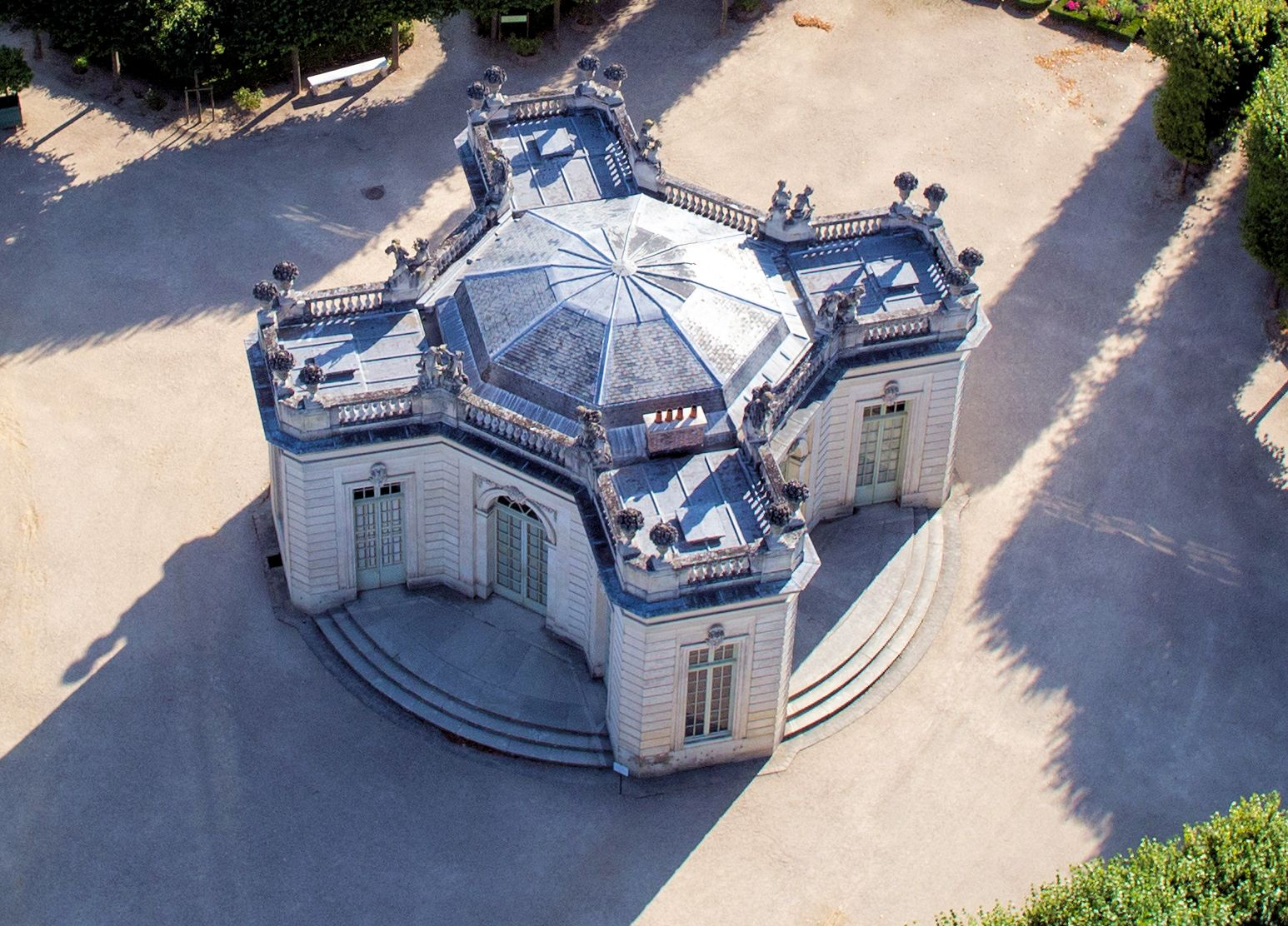 Aerial view of the Gardens of the Petit Trianon, Domain of Versailles, France (Pavillon français and Pavillon frais)